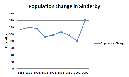 a graph of census data that shows the population change of sinderby over time.